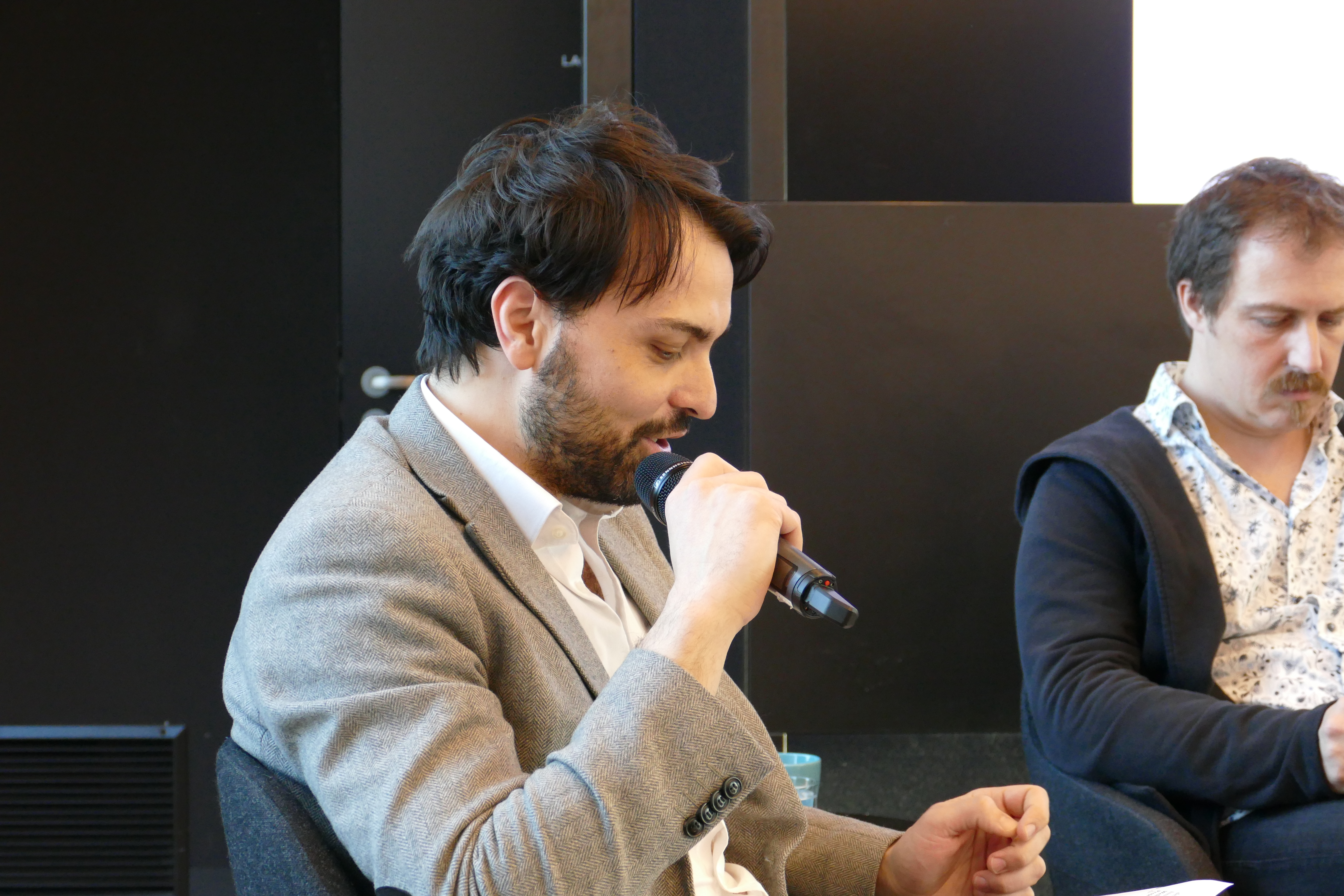 Federico Italiano at the event Fokus Lyrik 2019